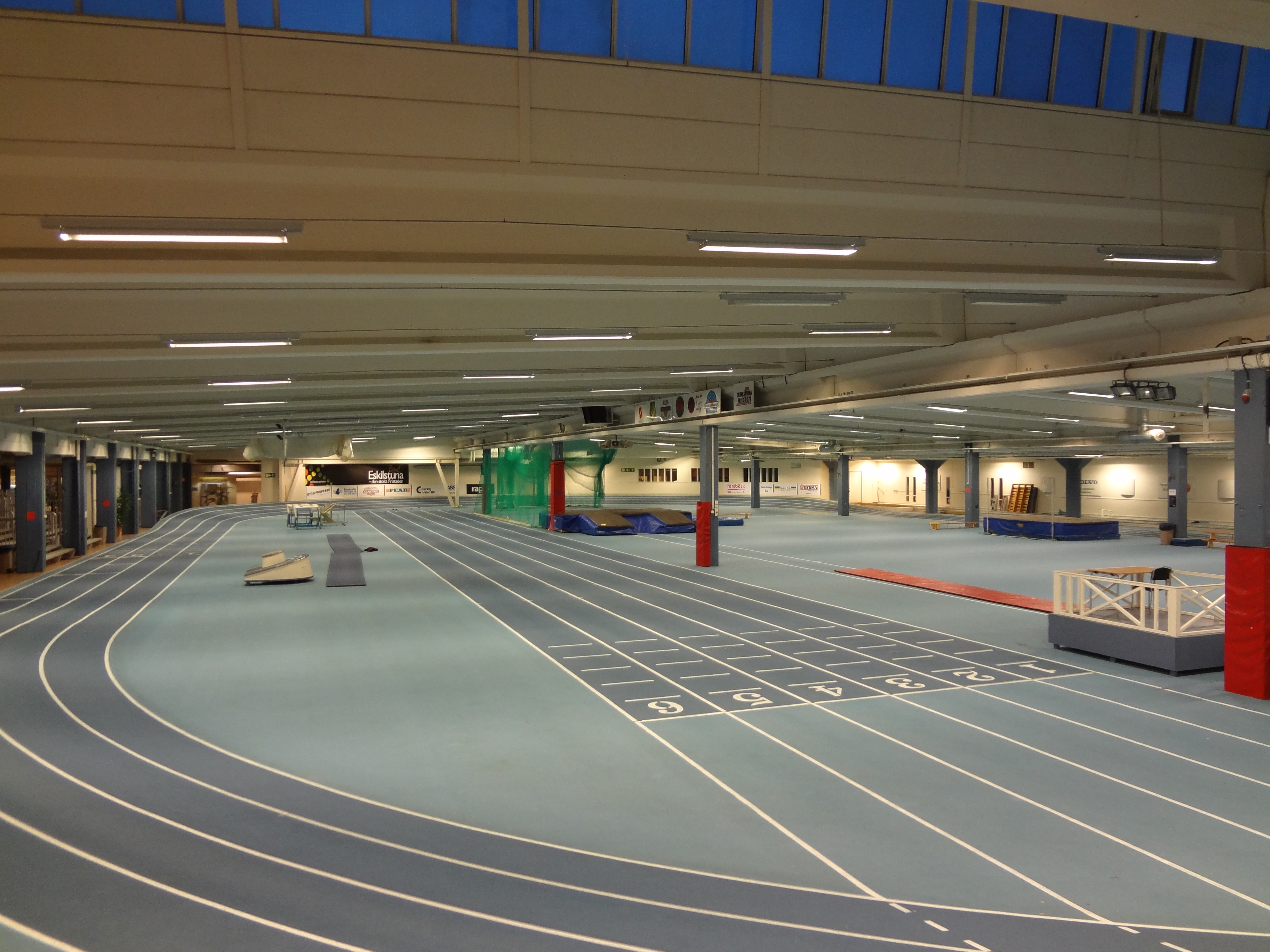 Athletics arena in MunktellArenan, Eskilstuna.